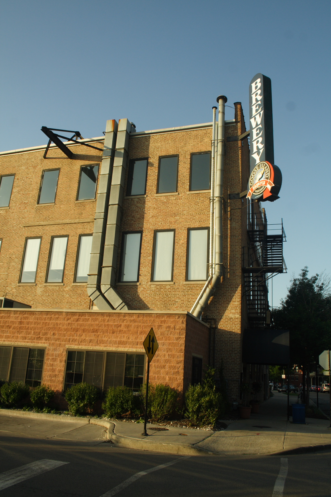 Goose Island Brewery, at 1800 N. Clybourn Ave., Chicago